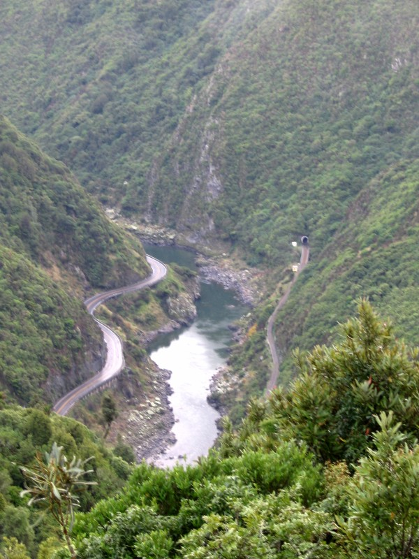 Manawatu Gorge in New Zealand. Photo taken from Manawatu Gorge Track